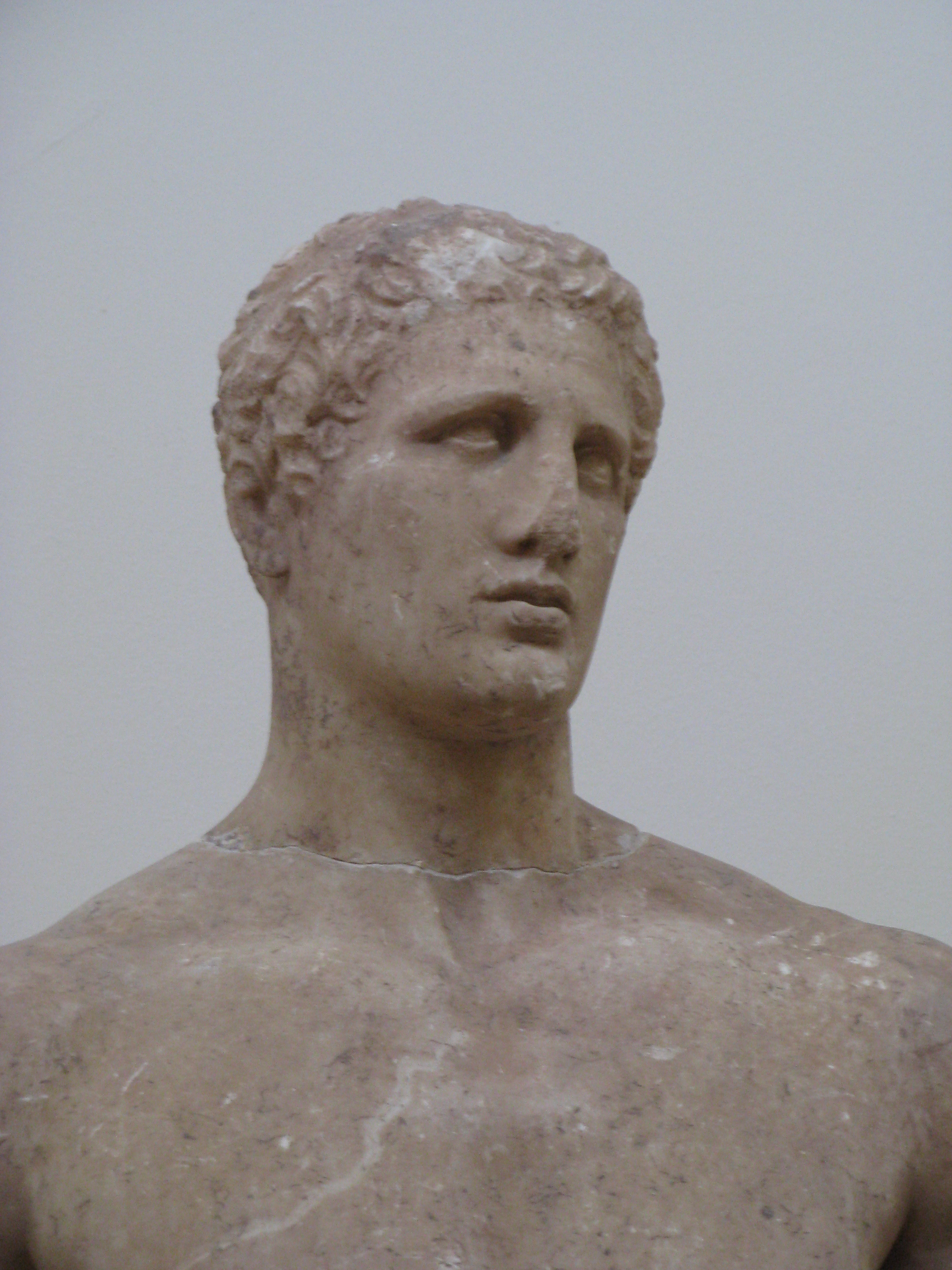 Statue of Hagias, possibly by Lysippos or his son Euthykrates (RIDGWAY, B. Hellenistic sculpture, 2001), from the votive of Daochos II in Delphi. Marble copy of a bronze original. Missing right arm and left hand, knees and calves. The nose is slightly damaged.